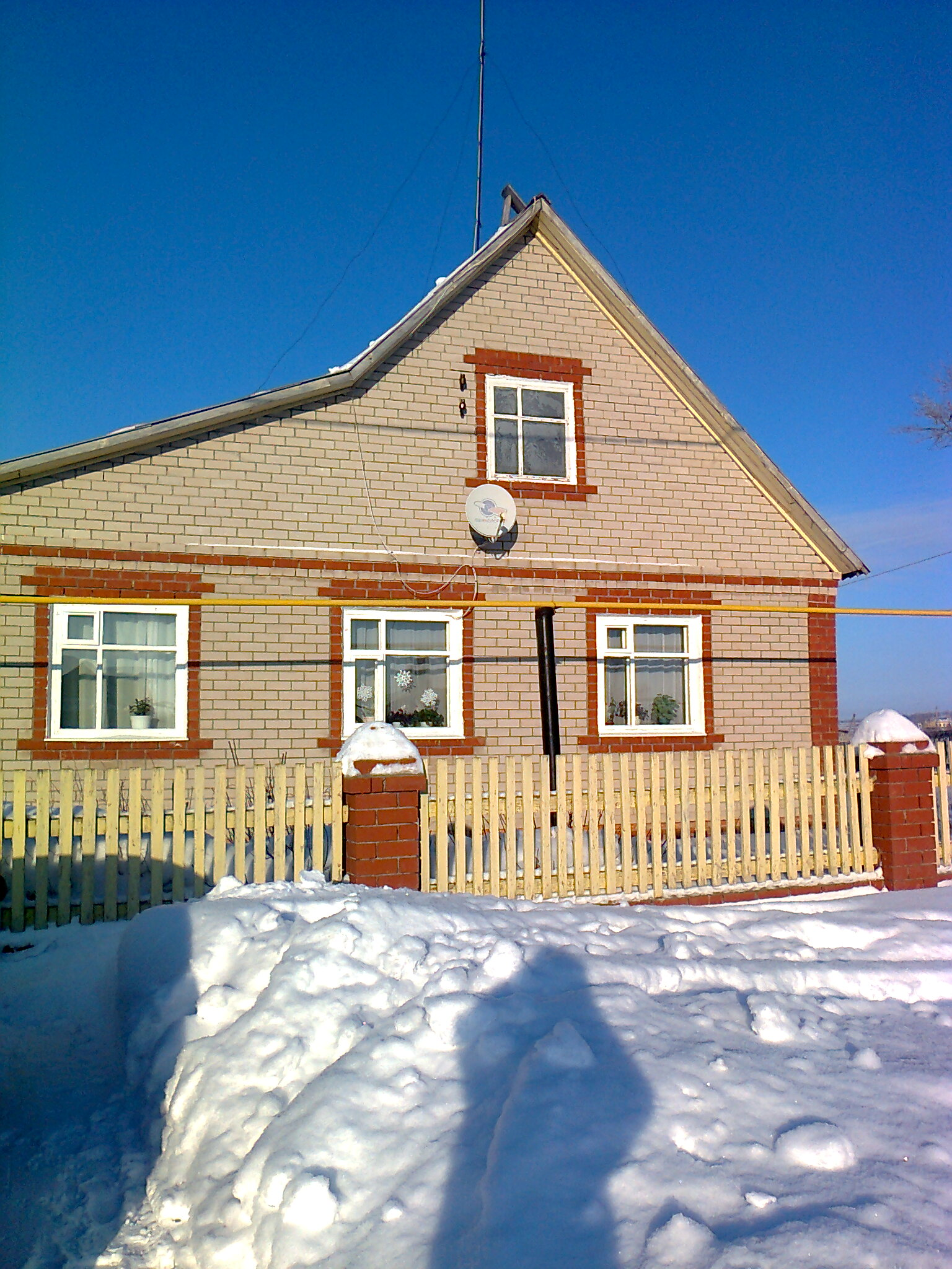 Center Street in Starye Savrushi village, Tatarstan